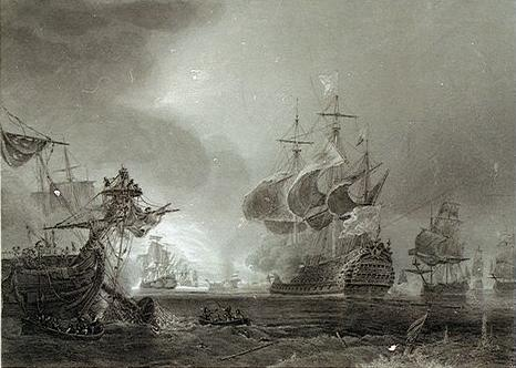 Battle of Beachy Head (1690)